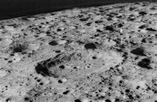 Oblique view of Shayn, on the far side of the moon. North to upper right.